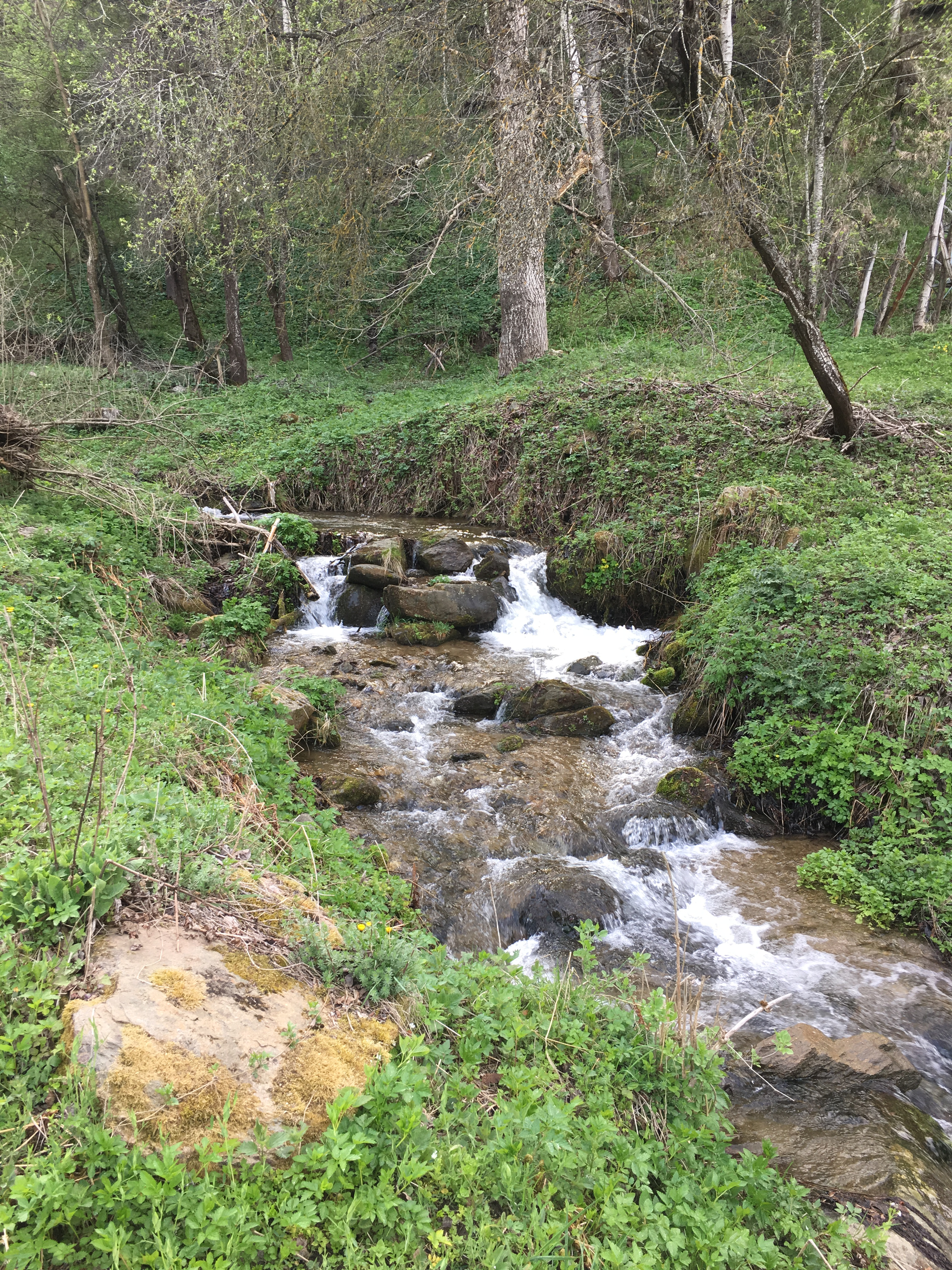 Kozja River through the village of Stanci